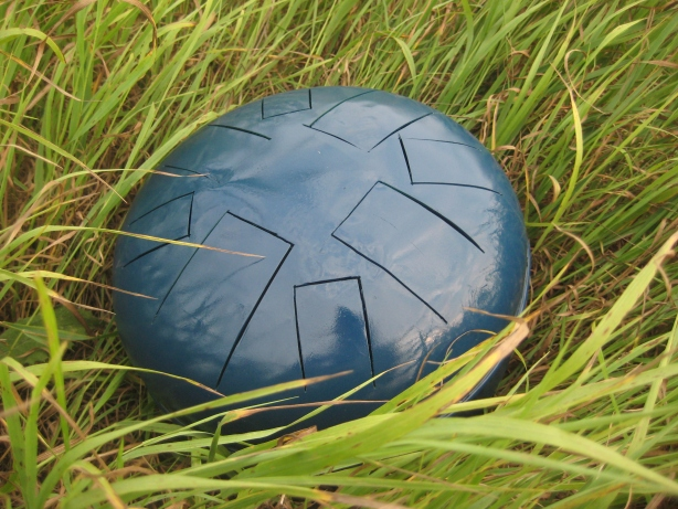 Canon russia